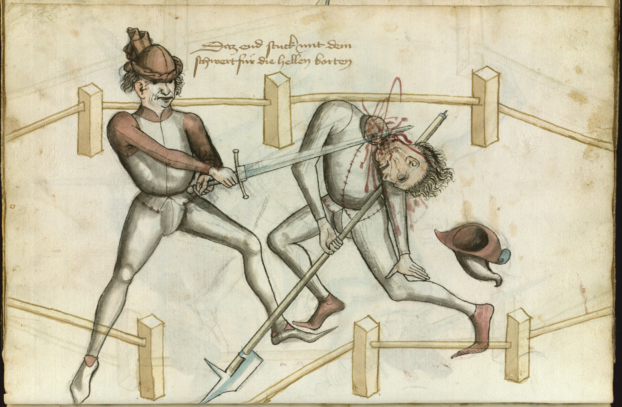 The Ms.Thott.290.2º is a fencing manual written in 1459 by Hans Talhoffer for his own personal reference and illustrated by Michel Rotwyler.